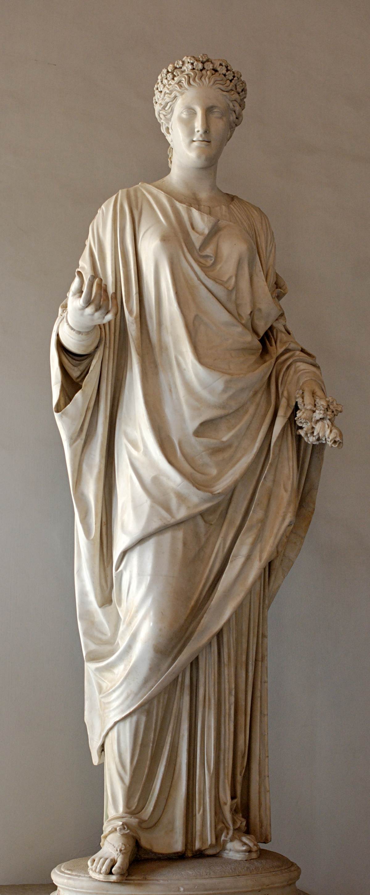 Flora. Marble, Roman artwork from the Imperial period; some modern alterations. From the Villa Adriana near Tivoli.